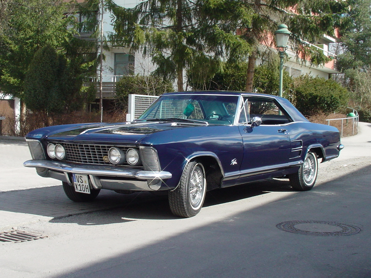 Buick Riviera 63